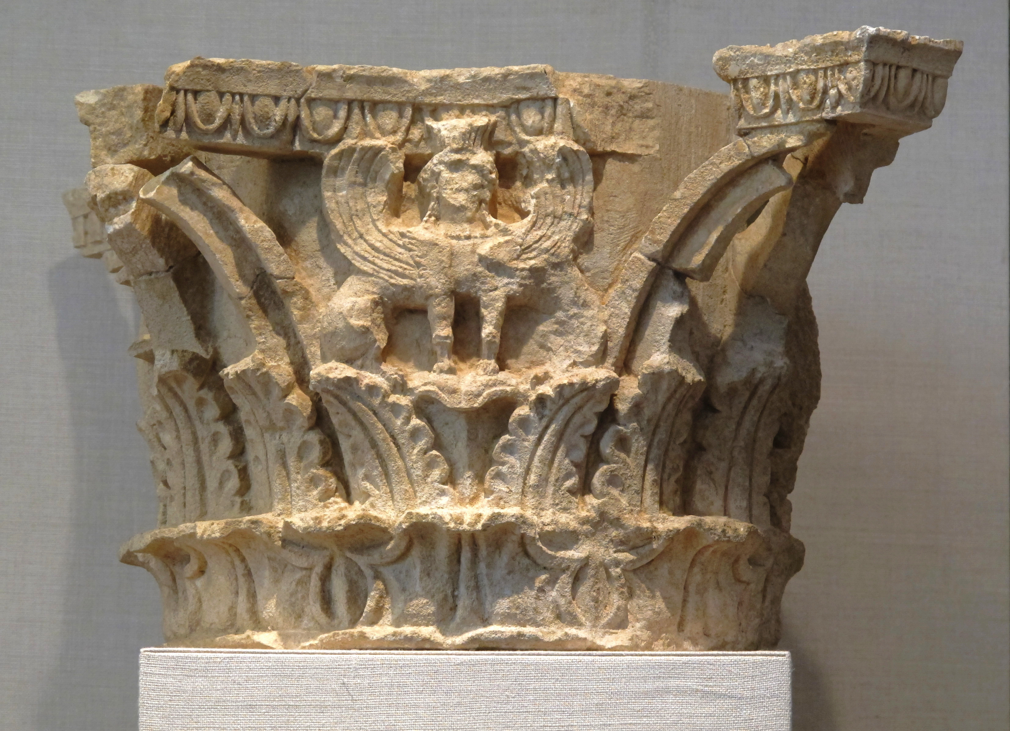 Greek, South Italian, Tarentine; Column capital; Stone Sculpture